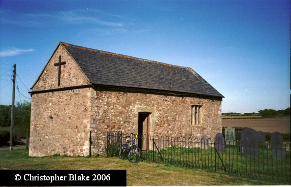 Church of St Mary, Potters Marston.